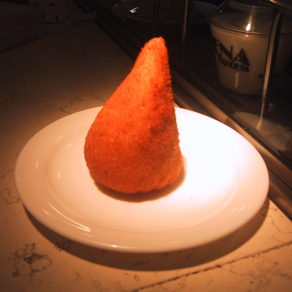 Coxinha - a popular Brazilian deep fried snack.